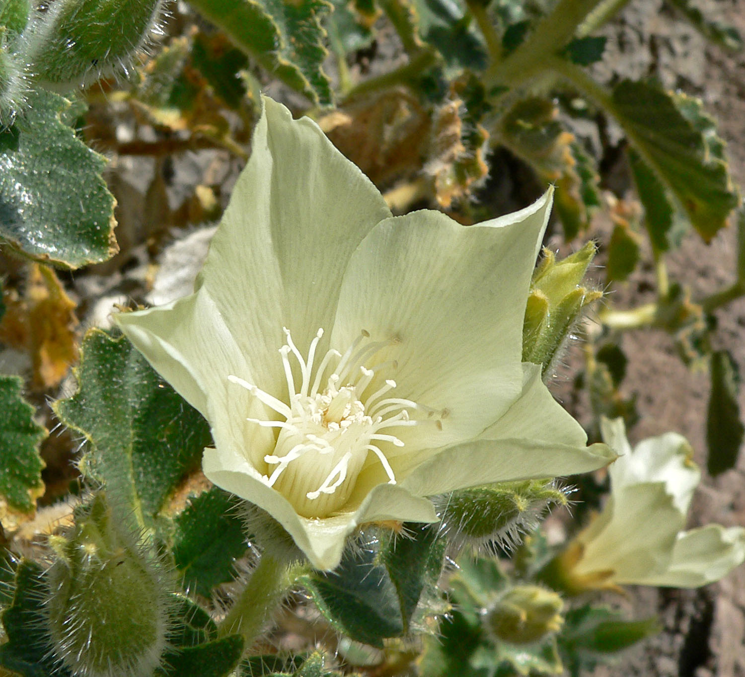 Photo of Eucnide urens in the desert at the west end of Cheyenne Ave, Las Vegas, Nevada (Lone Mountain area)